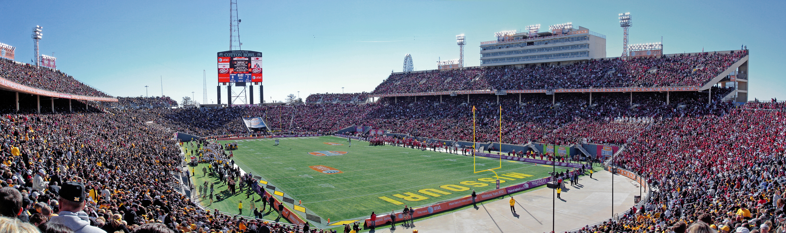 View of Cotton Bowl Stadium from the Missouri side of the 2008 Cotton Bowl game (Missouri vs Arkansas)Cotton Bowl 2007